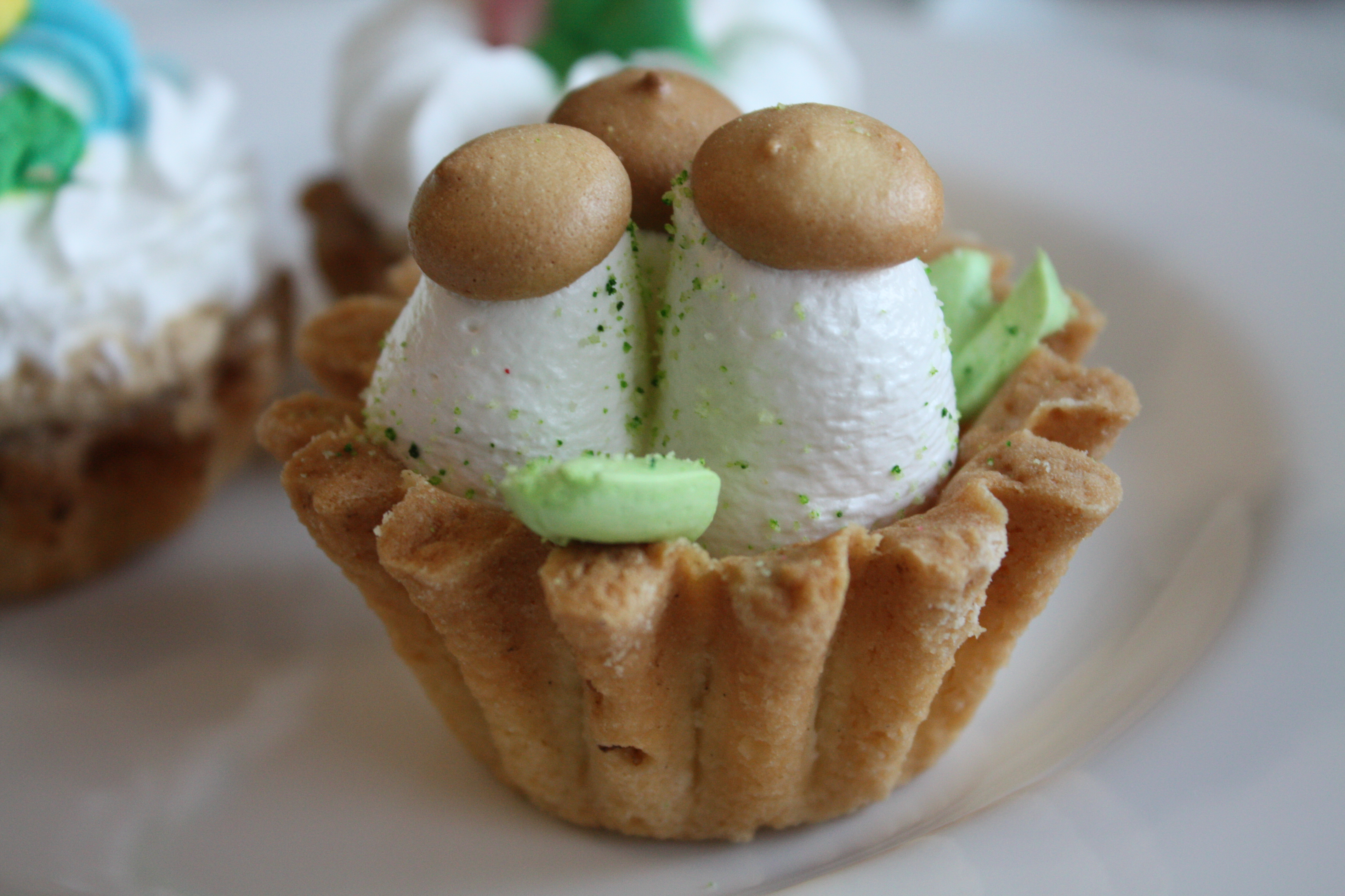 Cakes, Novosibirsk, Russia.